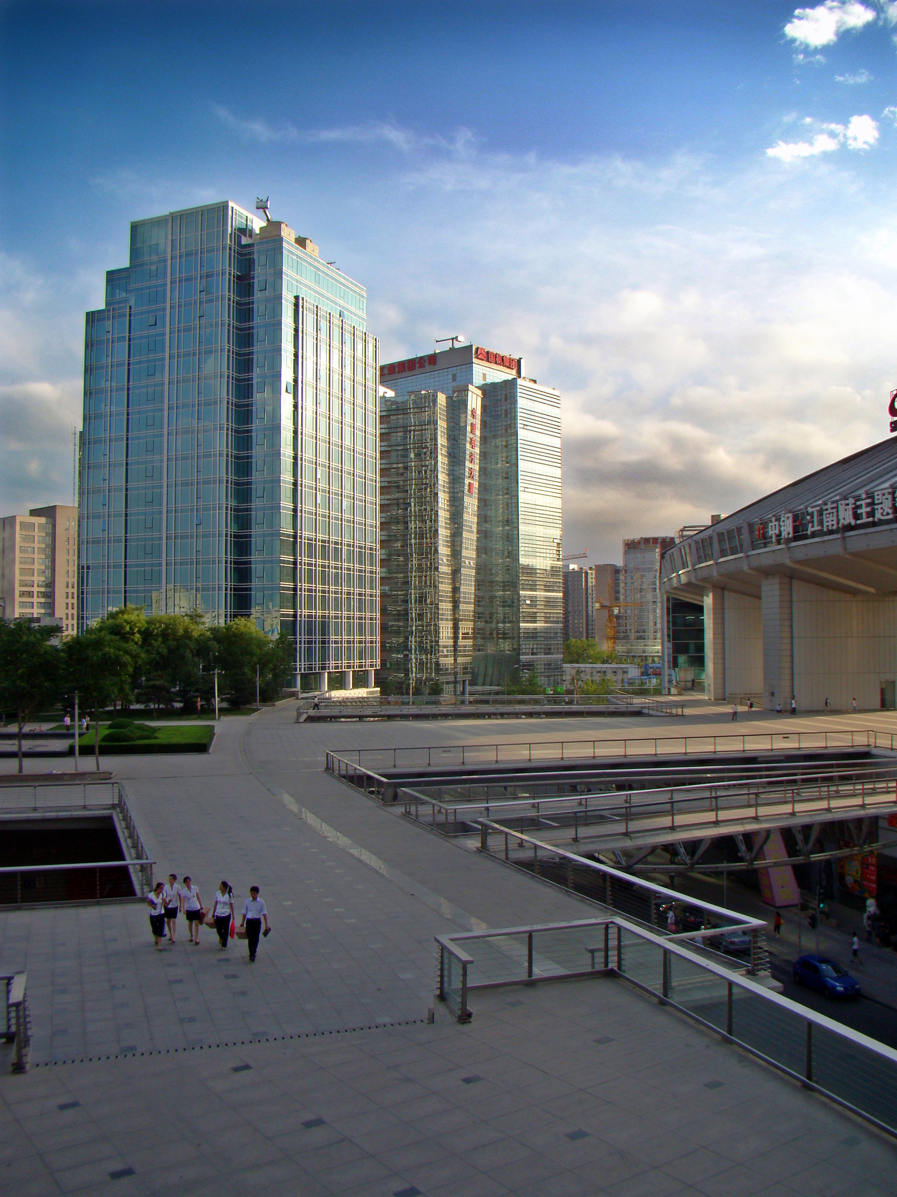 The southwest scene of Zhongguan plaza, Beijing, China. Original photos were pictured by sony H50, HDR. 中文（中国大陆）: 中关村广场西南景致，北京。H50拍摄，由三张HDR合成。